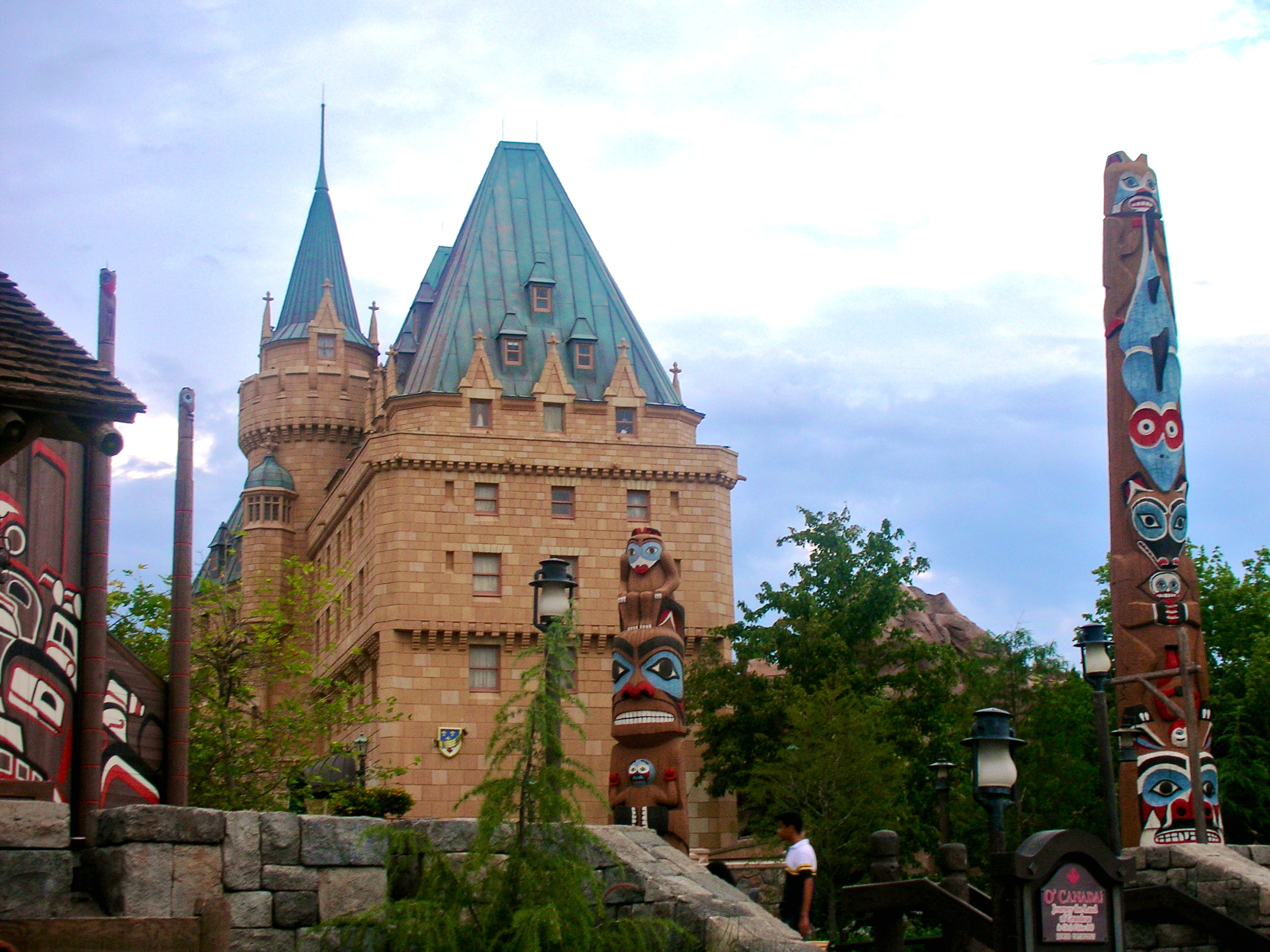 The Canada Pavilion at Epcot in Walt Disney World, Florida, United States